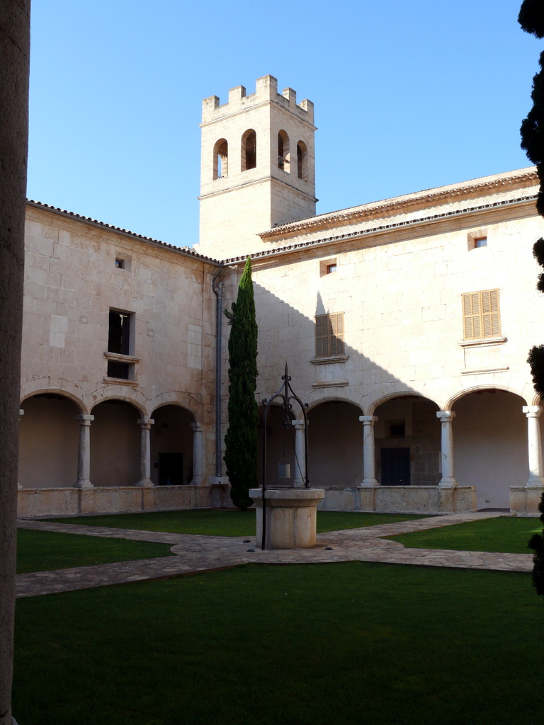 Sant Domingo's cloister, Inca(Mallorca)